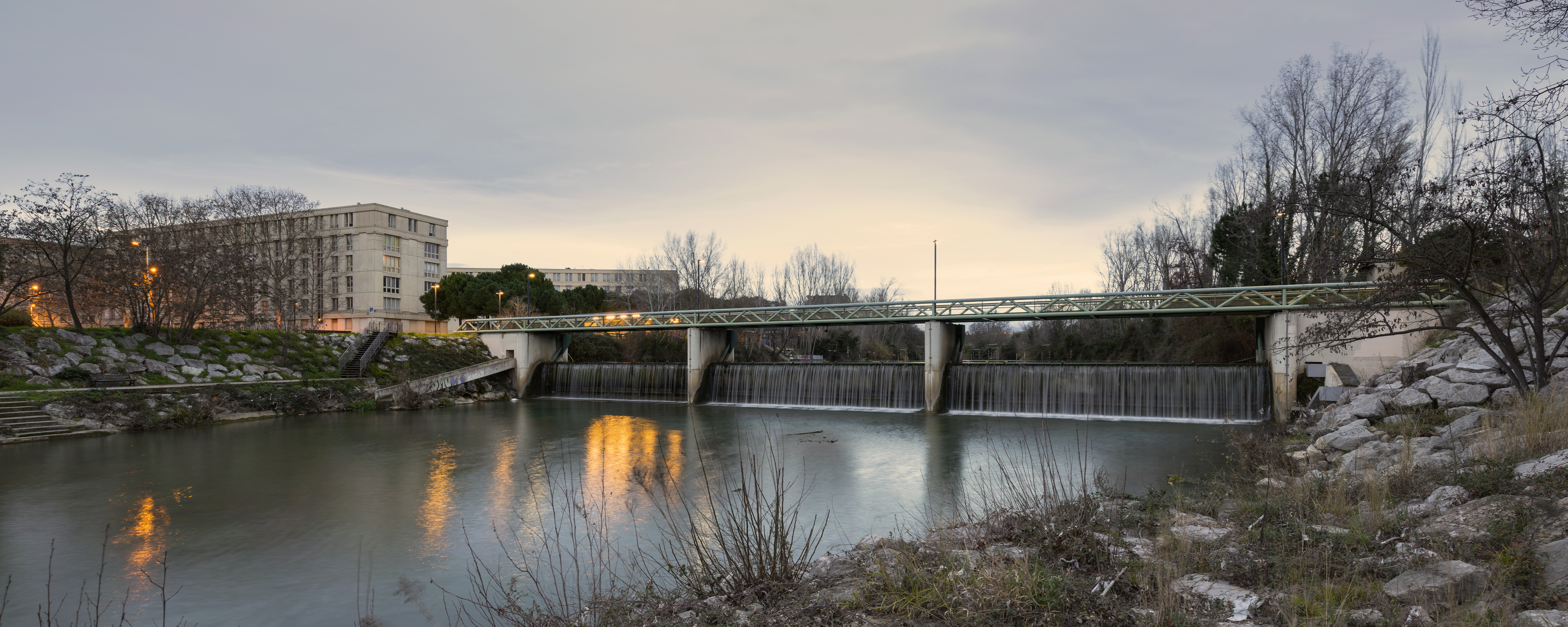 Footbridge Moulin de l'Evêque, over the Lez River. Montpellier, Hérault, France